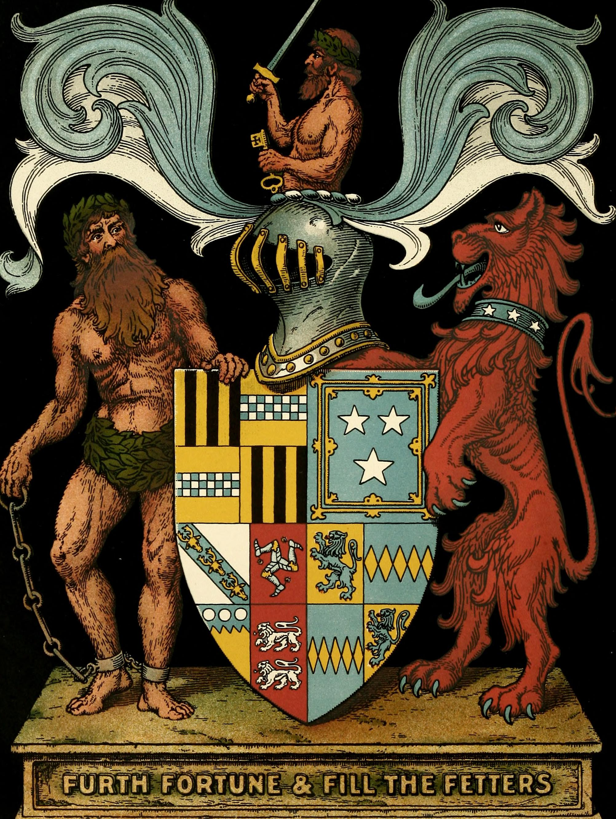 Title: The heraldry of the Murrays : with notes on all the males of the family, descriptions of the arms, plates and pedigrees Year: 1910 (1910s) Authors: Johnston, G. Harvey (George Harvey), 1860-1921 Subjects: Murray family Heraldry Publisher: Edinburgh London : W. & A.K. Johnston Text Appearing Before Image: „ 4th Viscount, 137. „ Viscounts, 138, 139.Strange, Earl of, 106. „ Lord, 103, 105, 106. Strathardle, Earl of, 102.Strathbran, Lord, 102 £.Strathearn, Earl of, 250a.Strathtay, Earl of, 102.Sutherland, Earls of, 13-23. „ Lord Duffus, 42-60. „ of Achastle, 34 b. „ „ Brabster, 34 b. Sutherland of Clyne, 70-74. Duffus, 42-60. Evelix, 48 £, 61-64. Forse, 24-41. Greschip, 44. Inverhassie, 61. Kinminitie, 65-69. Kinnauld, 82. Kinstearie, 75-81. Langwell, 32 b, 34 b. Quarrelwood, 44, 45. Rearquhar, 82-85., Torboll, 43, 44, 44 b.Tullibardine, Earl of, 98, 99, 101, 124, 125. ,, Marquess of, 102. Westminster, Earl of, 359/ Text Appearing After Image: THE Iheraldry of the /IBurrays WITH NOTES ON ALL THE MALES OF THE FAMILY DESCRIPTIONS OF THE ARMS, PLATES AND PEDIGREES BY G. HARVEY JOHNSTON F.S.A., SCOT.AUTHOR OF SCOTTISH HERALDRY MADE EASY, ETC.